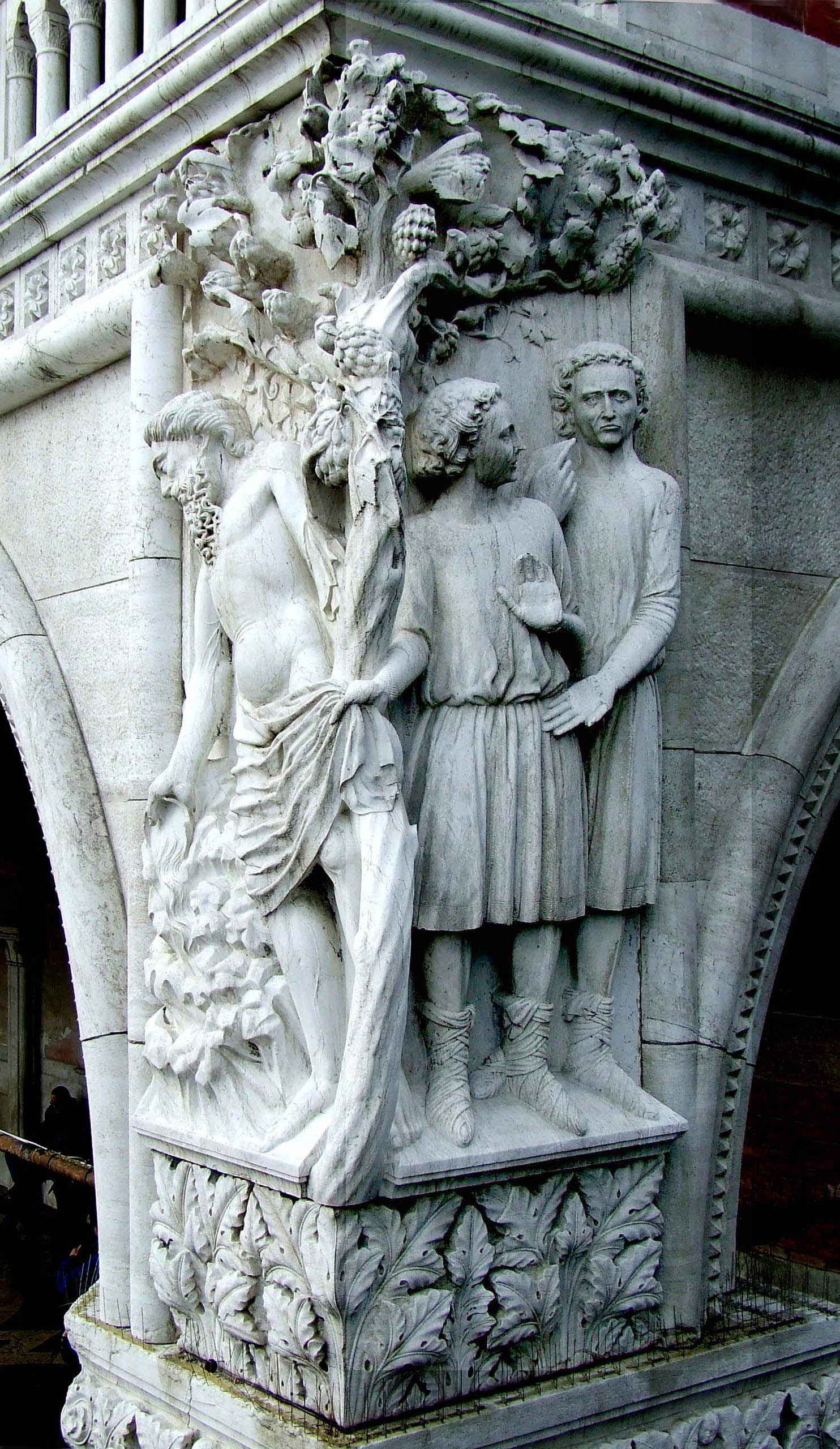 Drunken Noah with Sem and Japhet, a gothic relief from the Sea Facade of Palazzo Ducale in Venice.